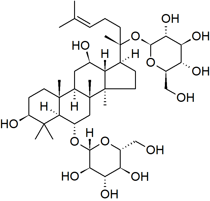 The molecular structure of ginsenoside Rg1, as verified at CAS Common Chemistry.